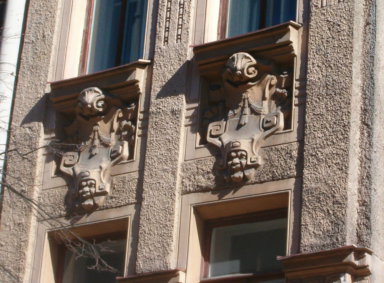 35, Gatchinskaya street, Saint-Petersburg, Russia (detail)